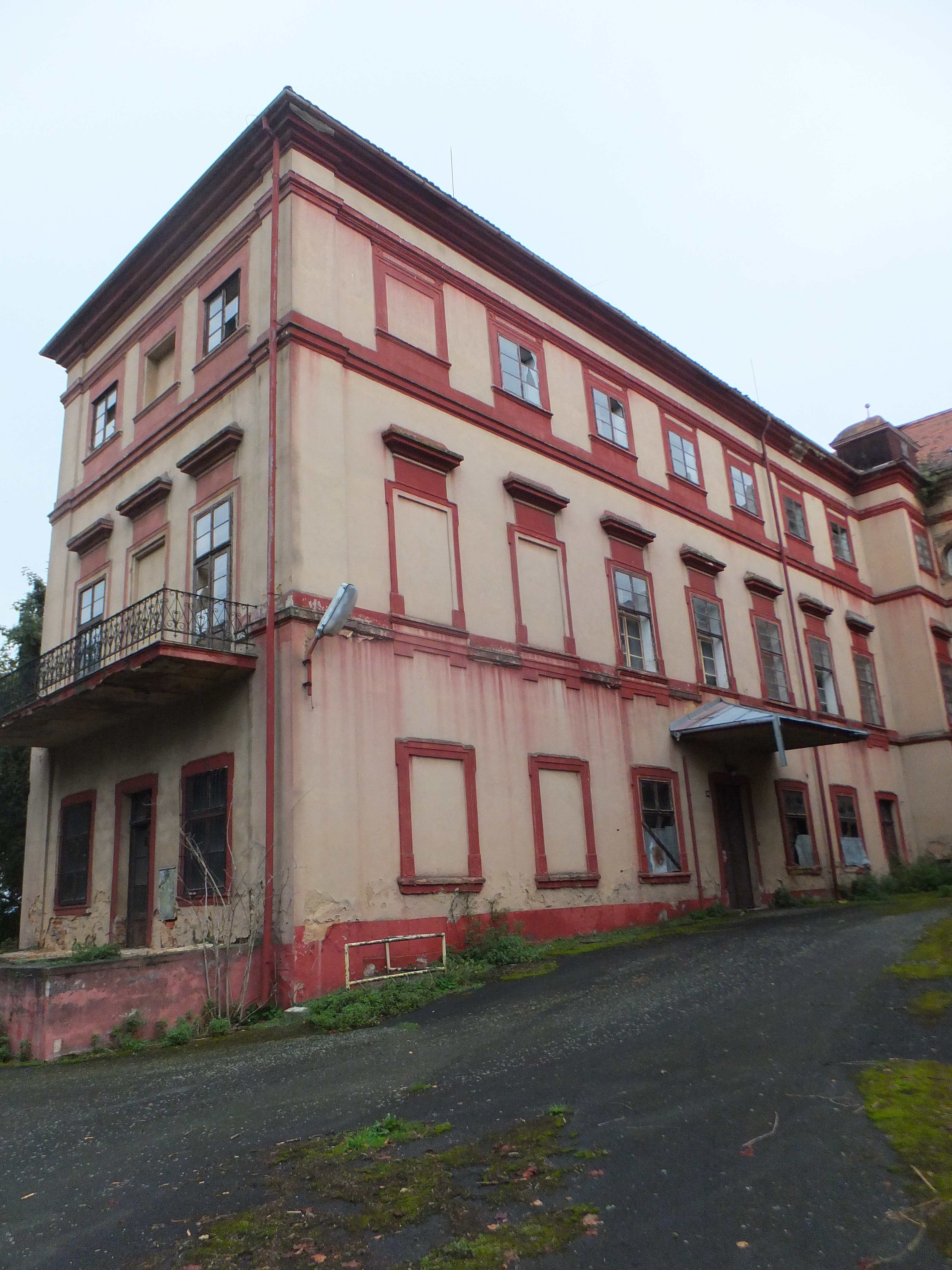 The castle in Planá (Tachov District)